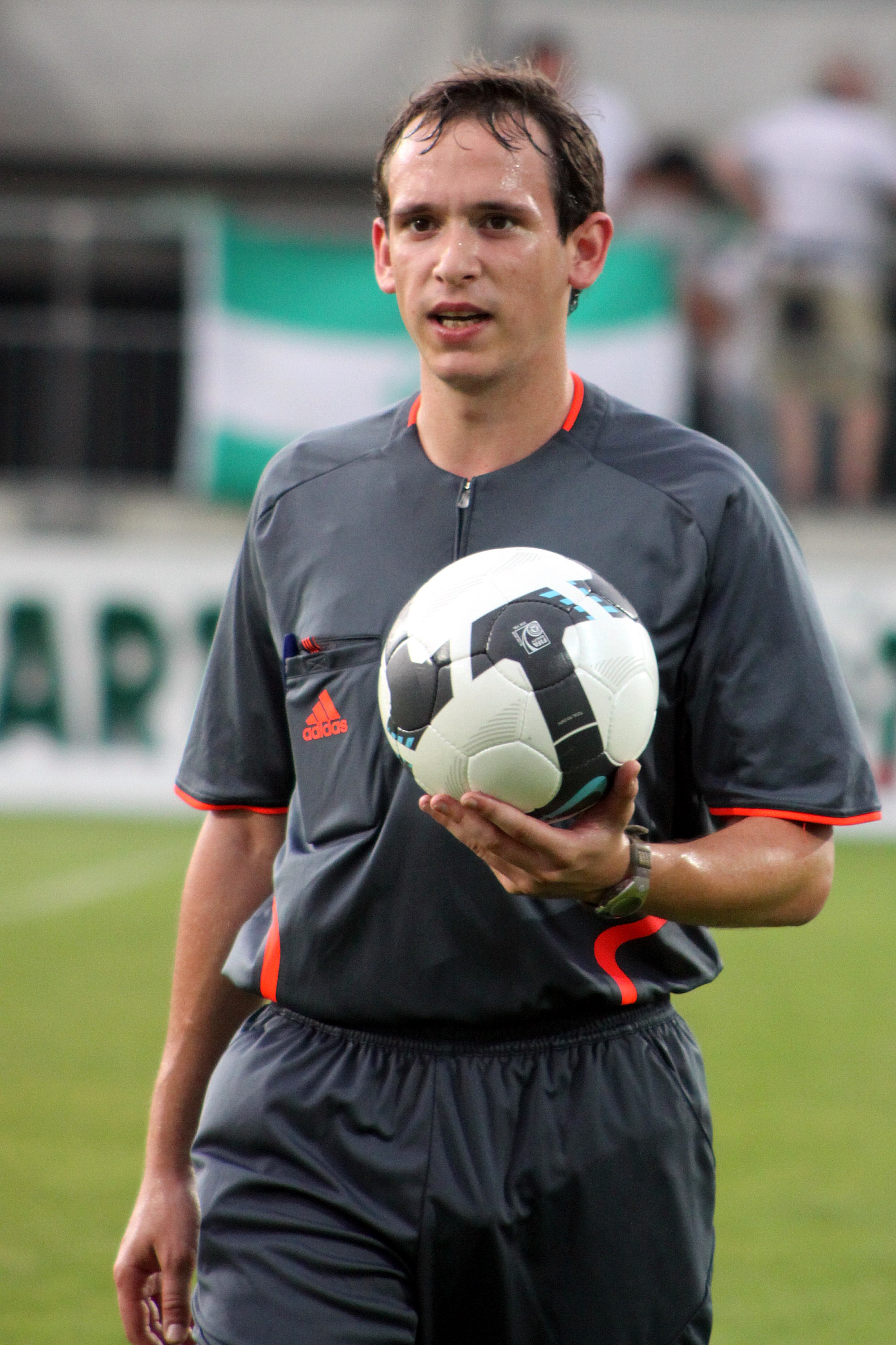 Benjamin Steuer, Referee of Austria